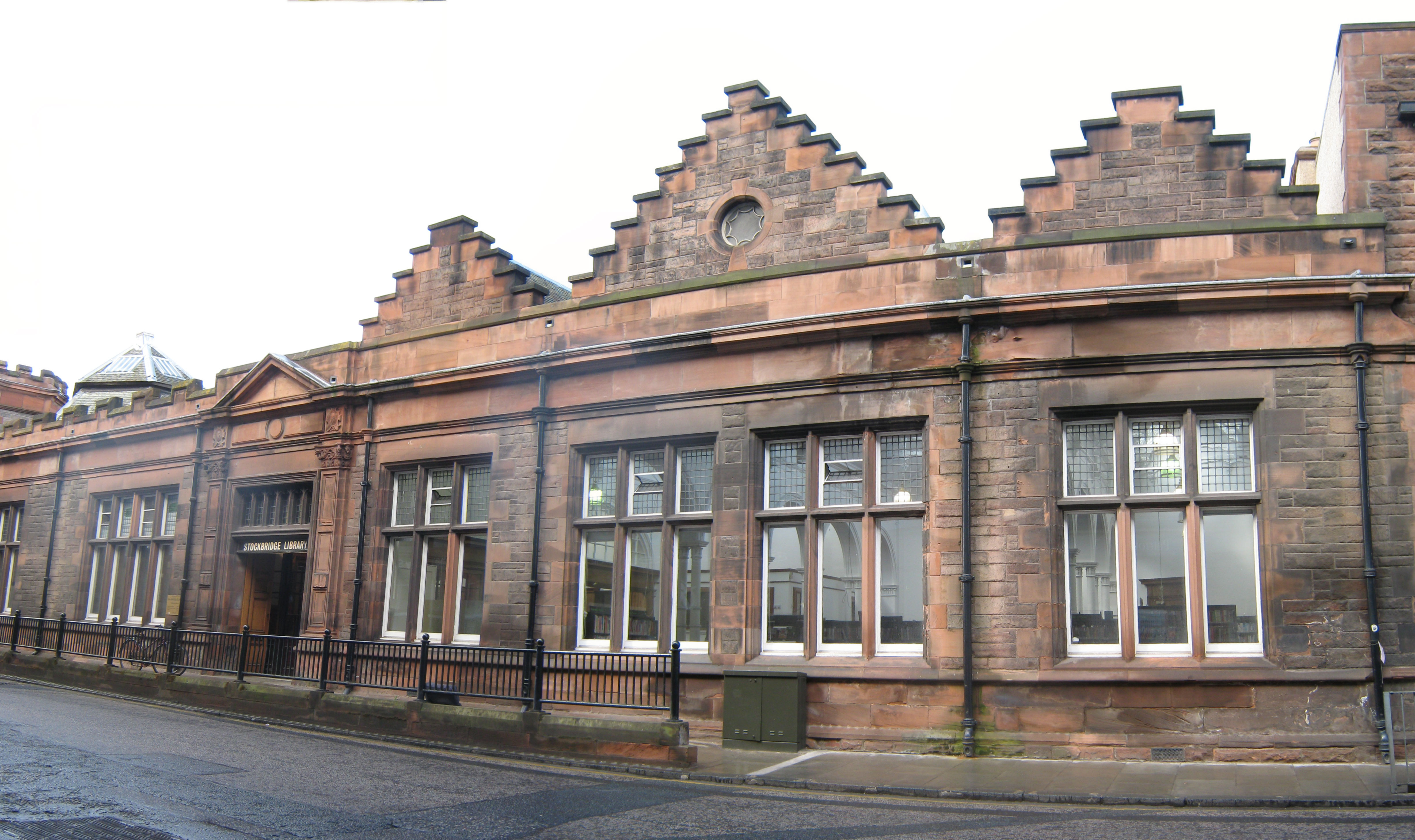 Stockbridge library, Edinburgh Location (OSM permalink)